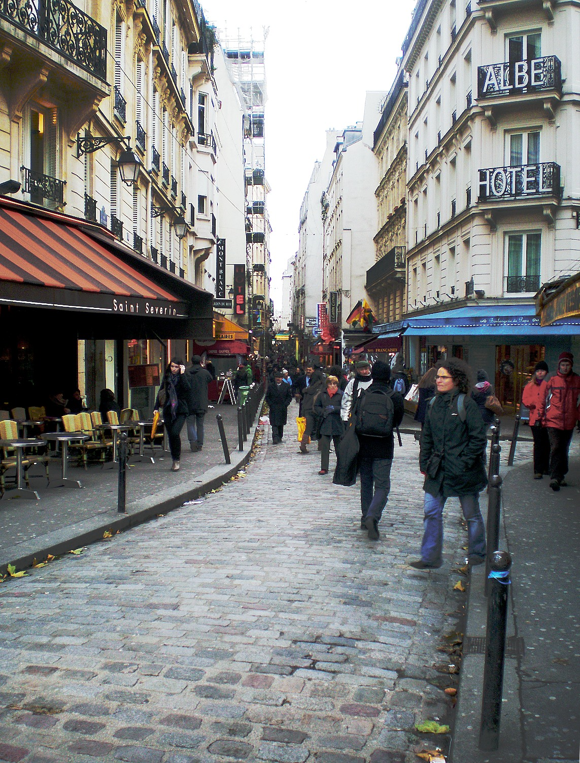 Huchette street - Paris